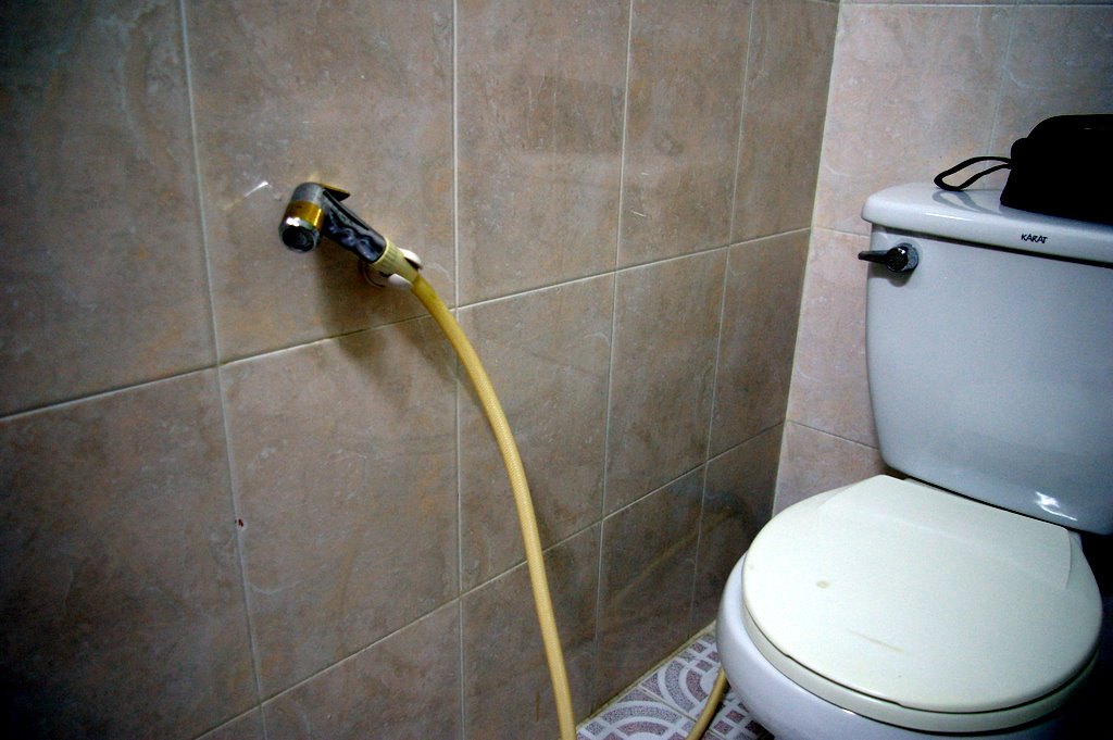 Health Faucet, Toilet Spray, Bum Gun